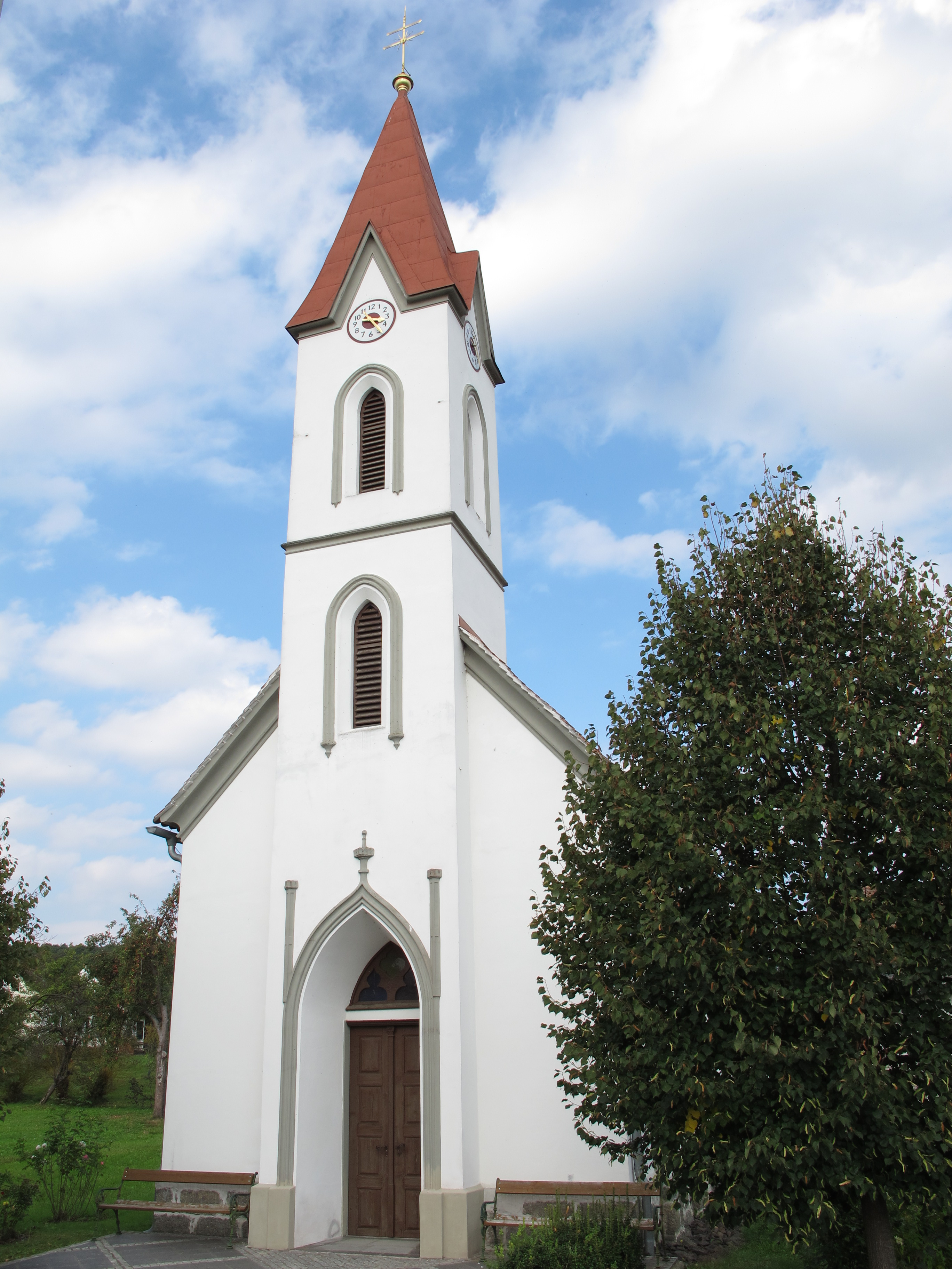 Ortskapelle Walkersdorf